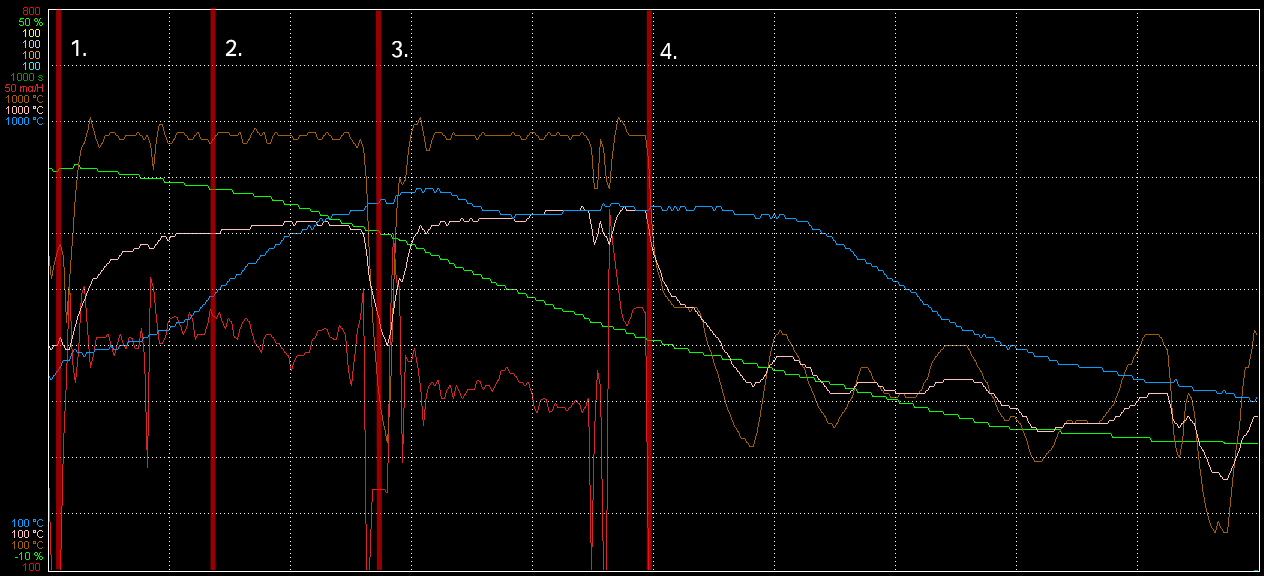 regeneration process of a diesel particulate filter without additive in a Volkswagen 2008 1.9 TDI with pump-injectors Legend: red: additional diesel injection mass green: filter load skin: exhaust gas temperature before filter turquoise: exhaust gas temperature after filter brown: exhaust gas temperature before turbocharger Stages: start of the regeneration by igniting the carbon inside the filter with heated exhaust gas via additional diesel injection after the main combustion ignition of the exothermic burning inside the filter slightly less additional fuel is injected deceleration fuel cutoff resulting in increase of oxygen in the exhaust gas resulting in faster and hotter burning additional fuel injection is cutoff and the remaining ignited carbon-particulate matter burns away